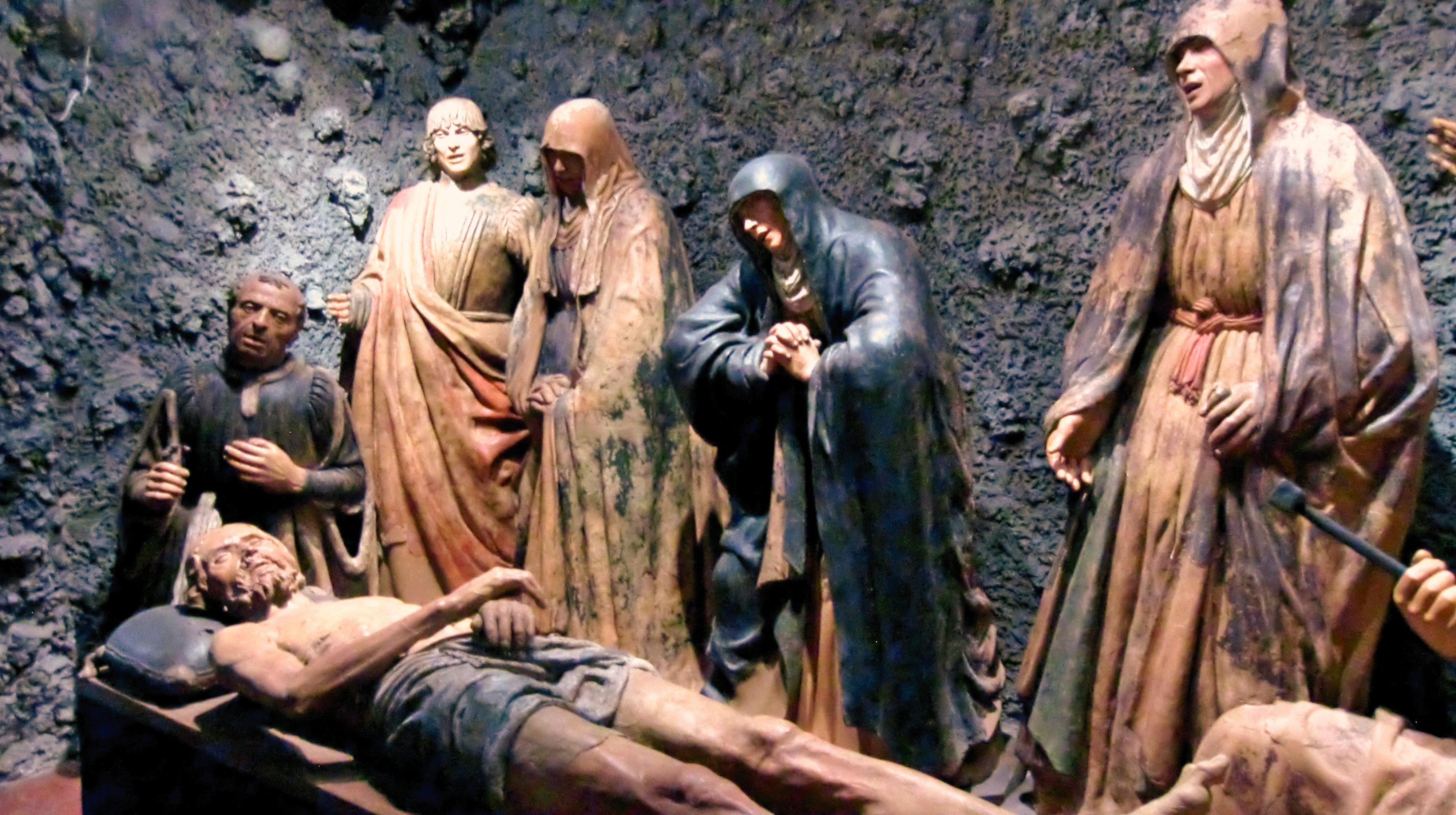 Guido Mazzoni, Lamentation of Christ (detail), terracotta, 1476-77 ca., Chiesa di Santa Maria degli Angeli, Busseto (Parma), Italy